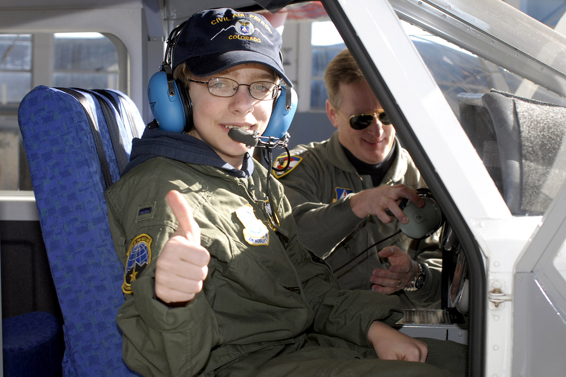 Zachery Olson, a 14-year-old suffering from neurofibromatosis, gets acquainted with a Civil Air Patrol aircraft Jan. 19. Olson got a flight in the CAP craft, toured a C-21 and was made an honorary pilot through the 311th Airlift Squadron and the Make-A-Wish Foundation. (U.S. Air Force photo by Larry Hulst)